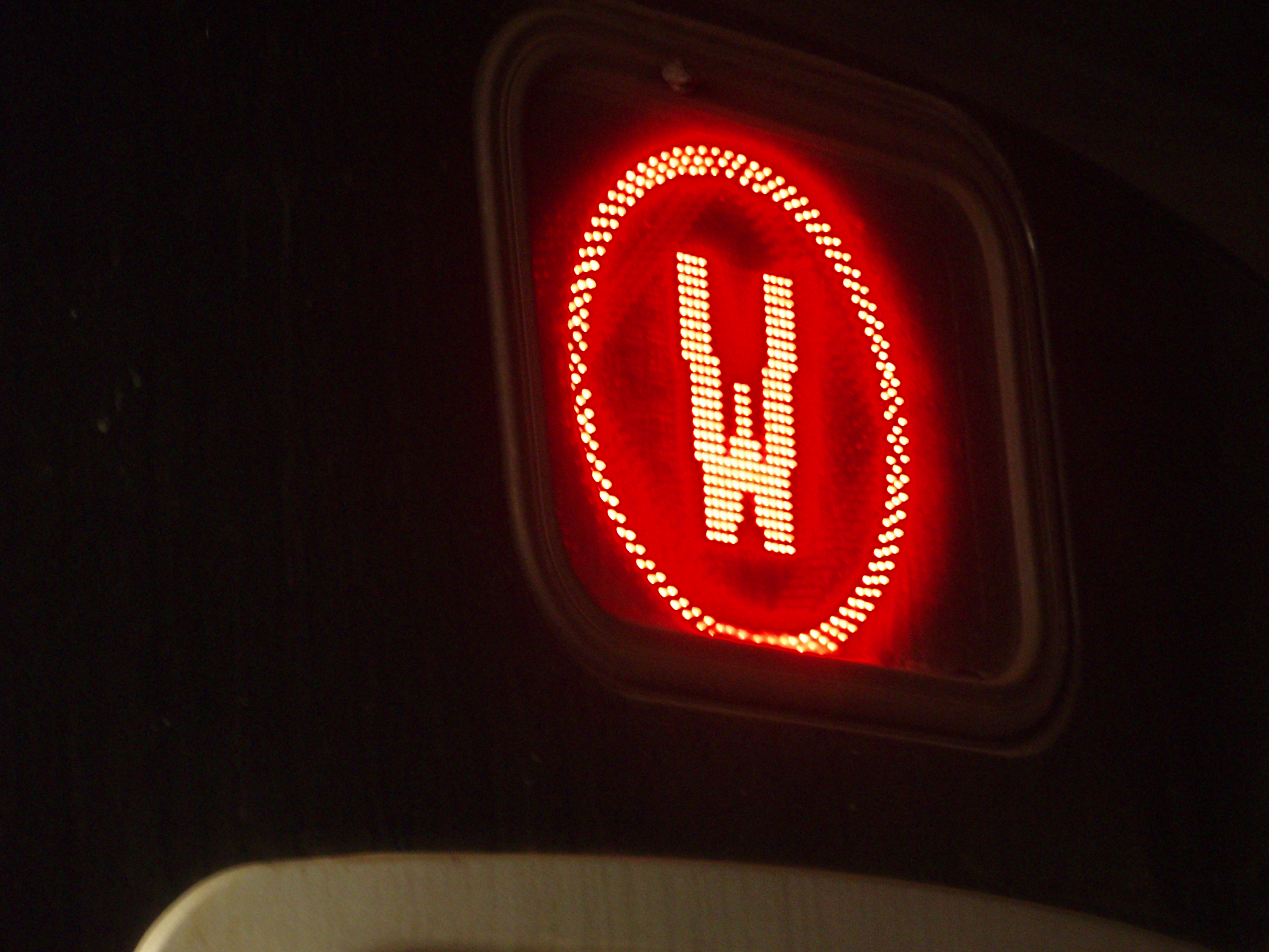 Route Identification Display of an R160 car on the W line, taken at the 14th Street-Union Square station, 2010-06-11 15:07:00 UTC -4